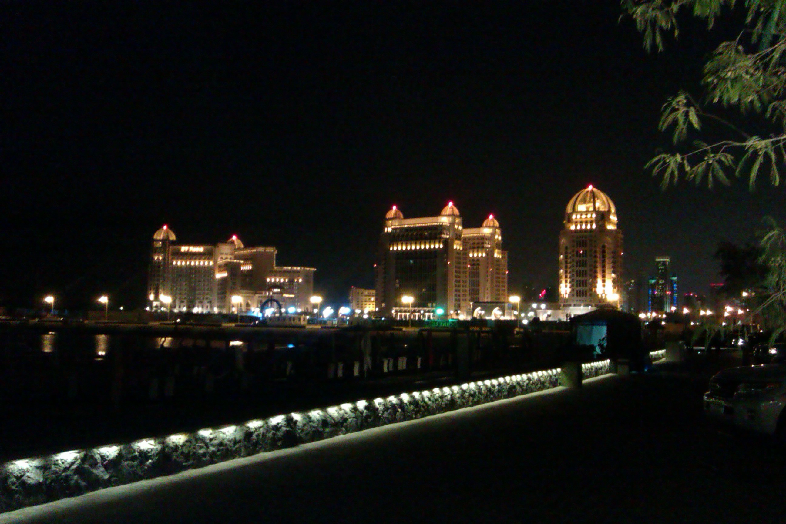 Doha west bay, Qatar